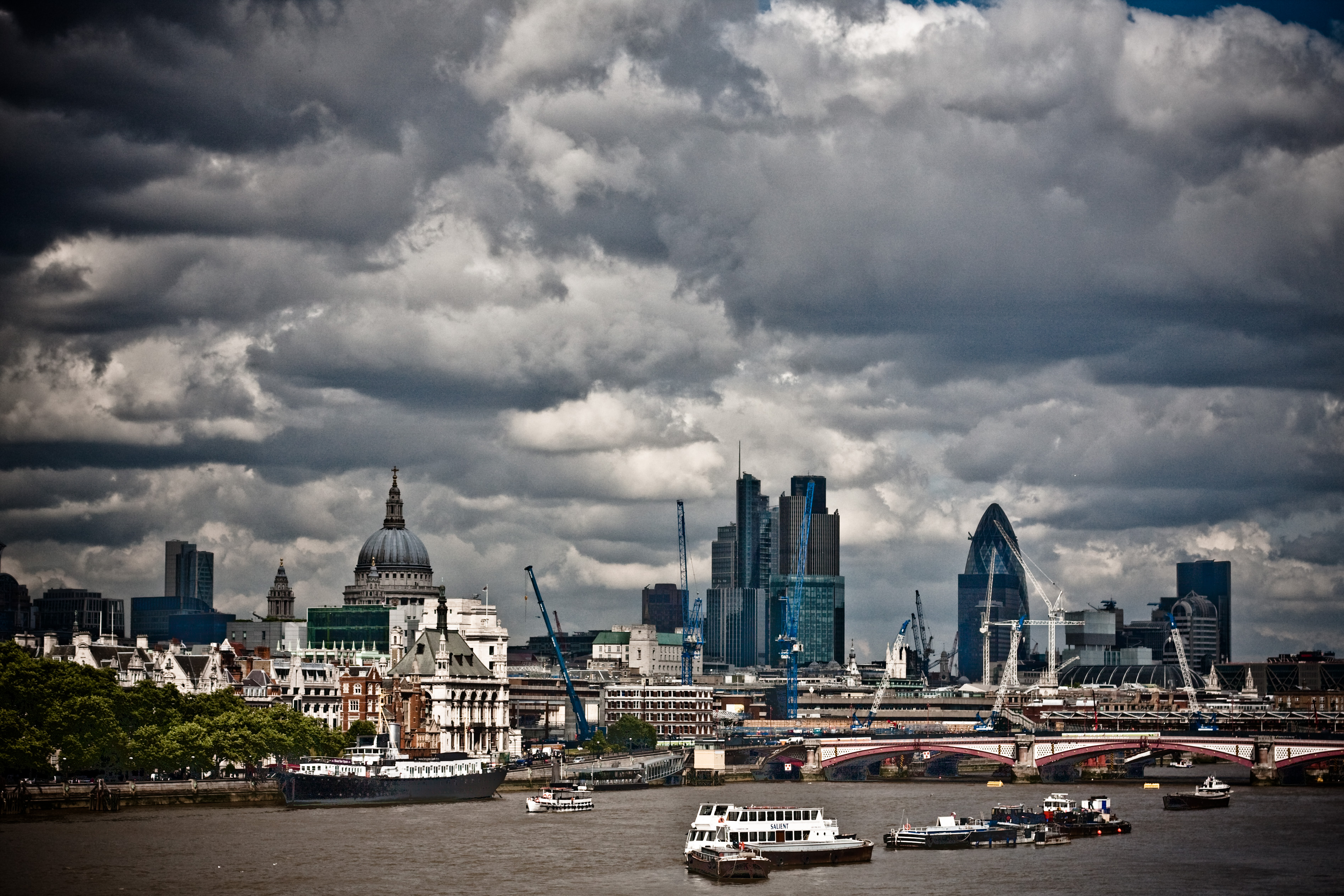 Looking eastward down the Thames.